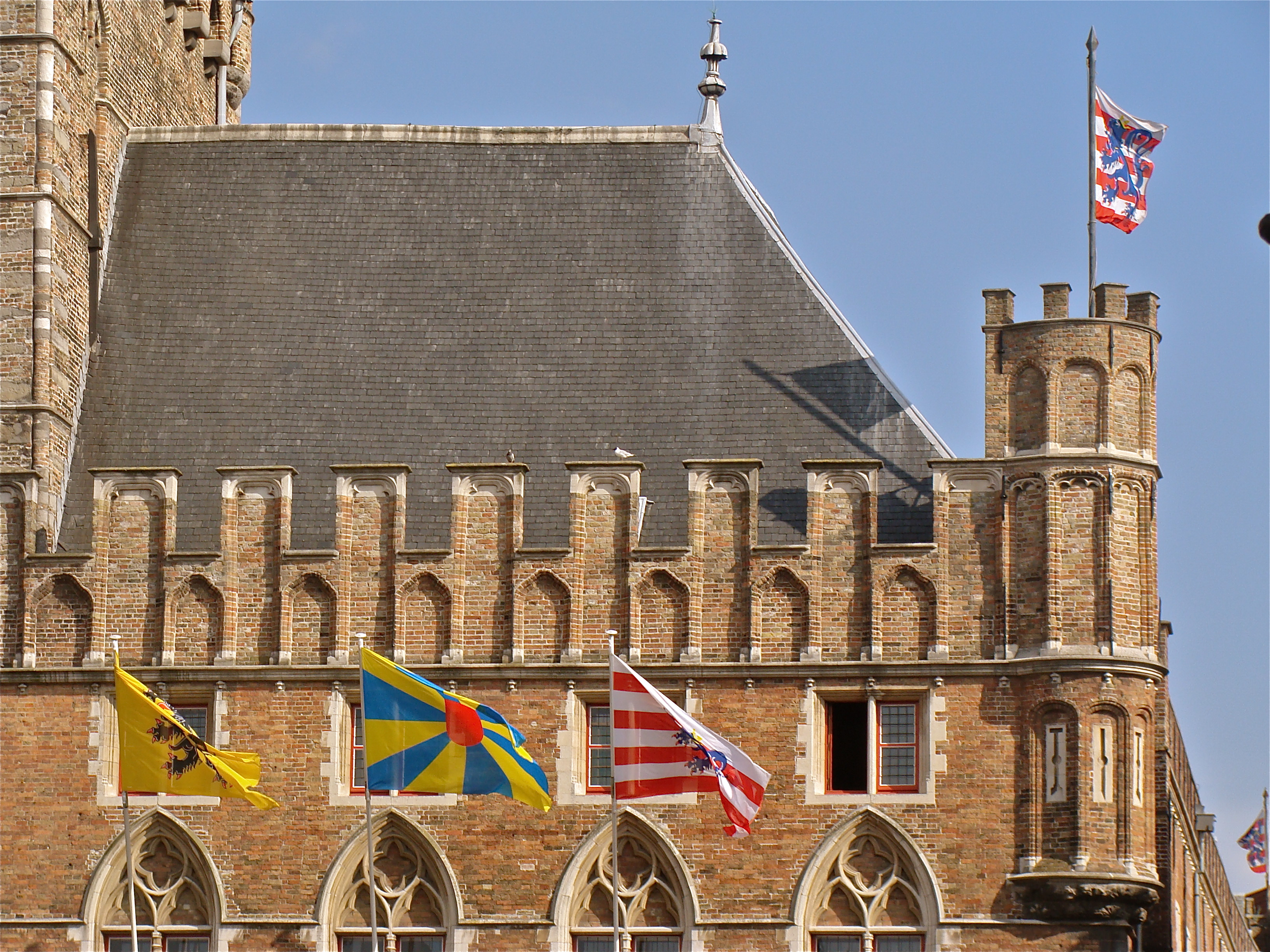 a part of the roof of the building of the belfry in Bruges, Belgium